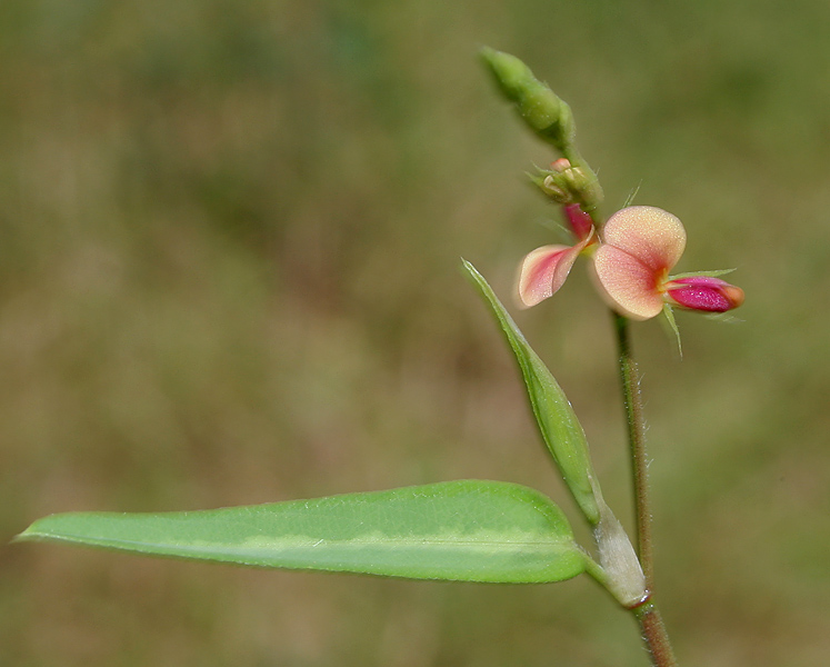 Shevra, Long Leaved Alysicarpus or Jangali gailia Alysicarpus longifolius in Hyderabad , India.